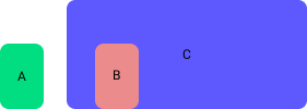 A represents a static observer. Block C represents a train in motion, where B would be a sat person.